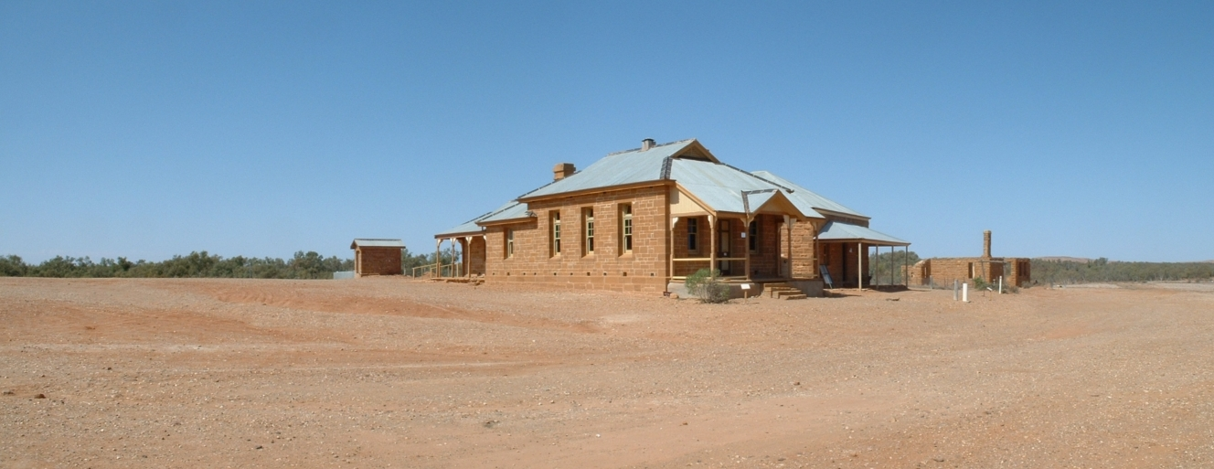 Historic buildings at Milparinka, New South Wales. The buildings are the court house, police barracks and the post office.